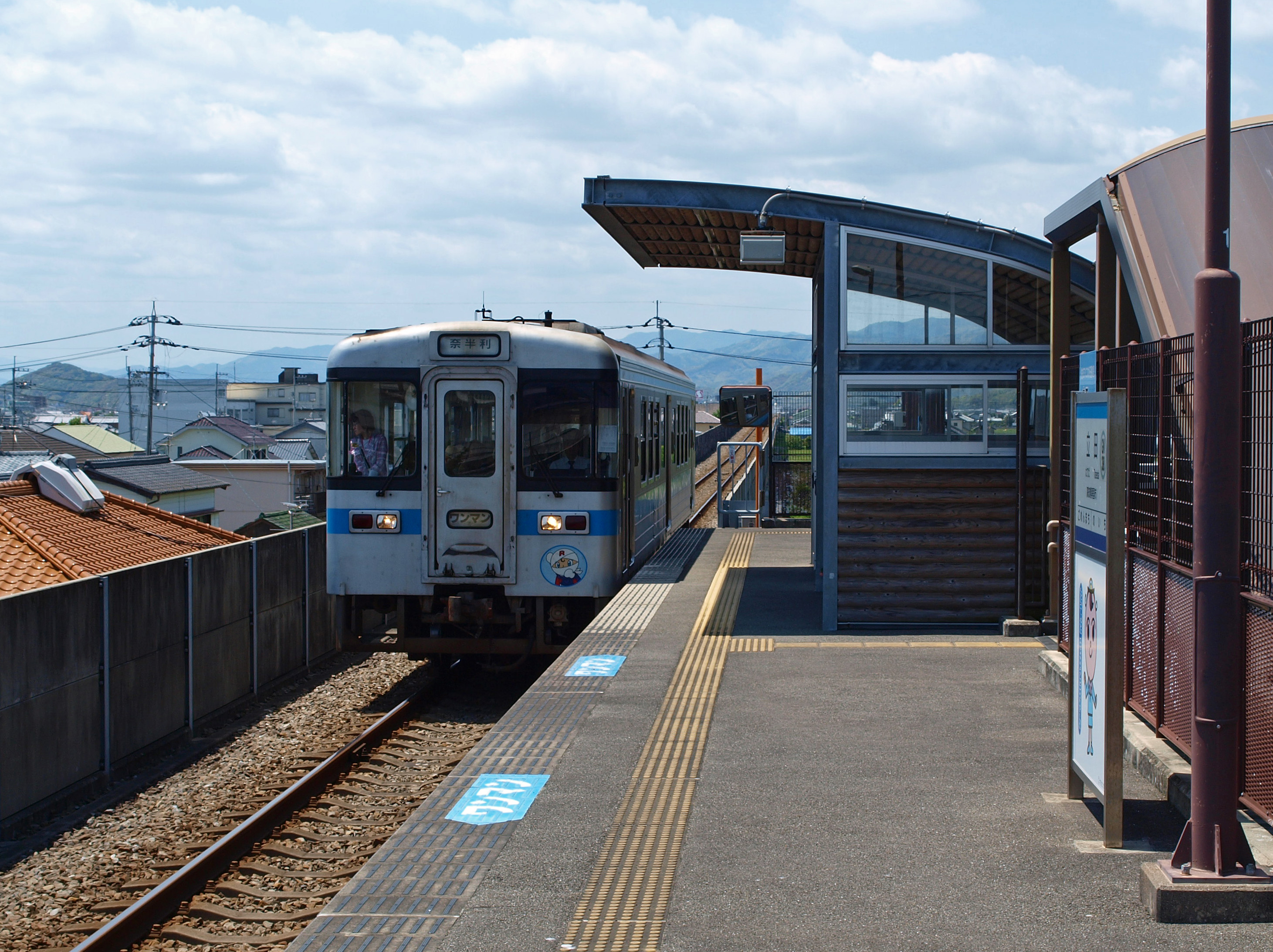 Tateda Station, Gomen-Nahari Line（Asa Line), Tosa Kuroshio Railway, Japan